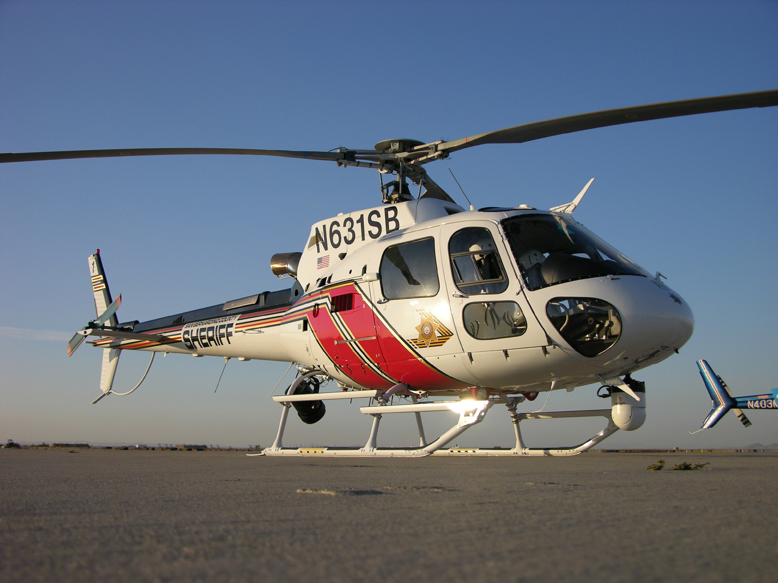 AS-350 Astar of the San Bernardino County Sherrif's Department, at Victorville, California